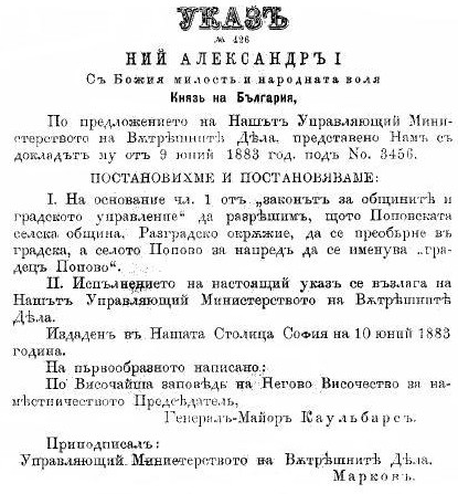 State decree No. 426 issued by Bulgarian king Alexander I, concerning the change of the statute of village Popovo to town